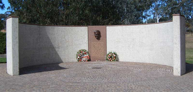 The Kemal Atatürk Memorial has an eminent place on ANZAC Parade, the central ceremonial and memorial avenue of Canberra, the capital city of Australia.